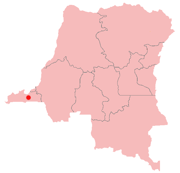 Mbanza-Ngungu, Democratic Republic of the Congo Location Map; created with the GIMP. Made by User:Acntx.